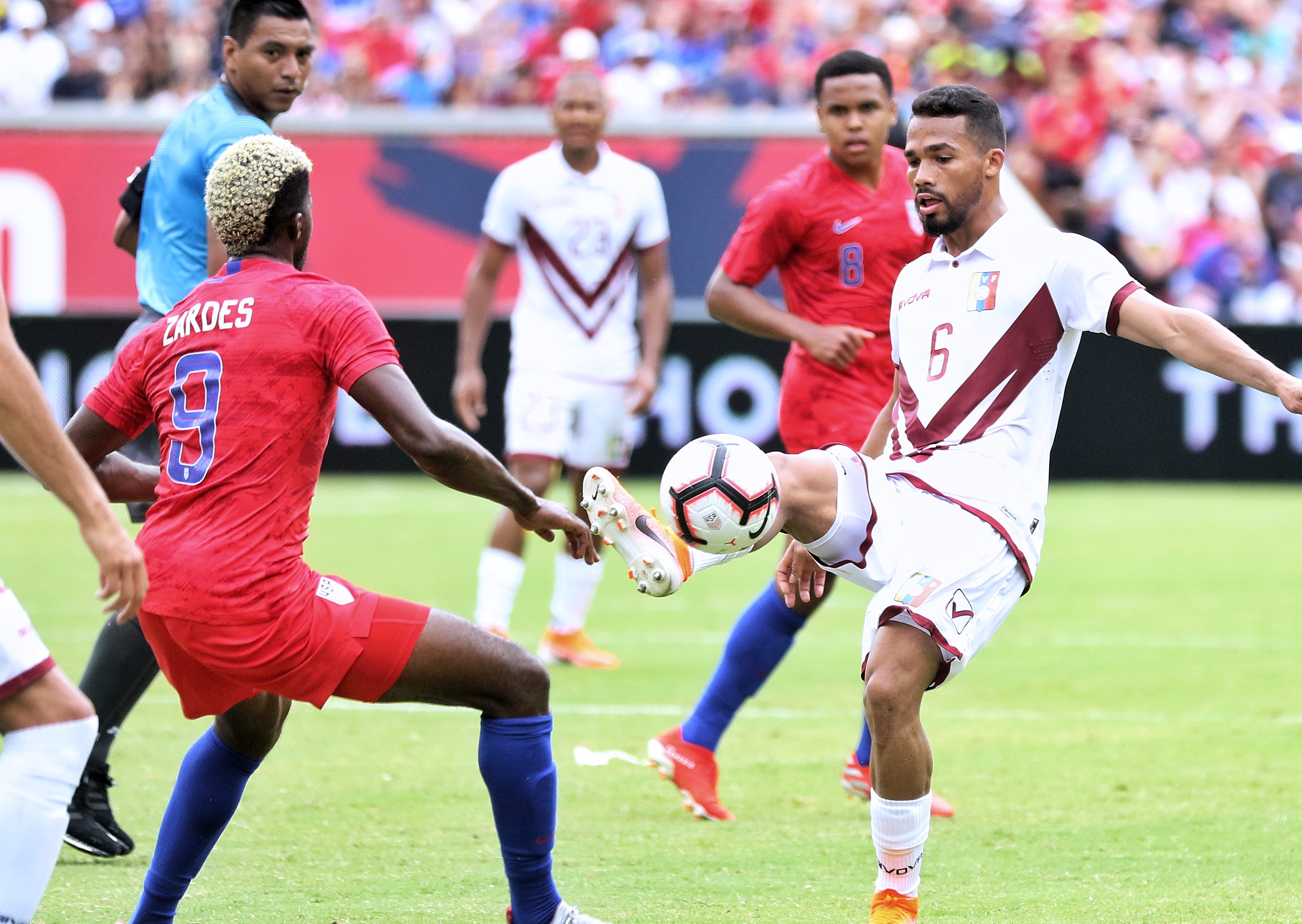 Gyasi Zardes & Yangel Herrera playing for their respective national teams (the United States and Venezuela) on June 6, 2019.